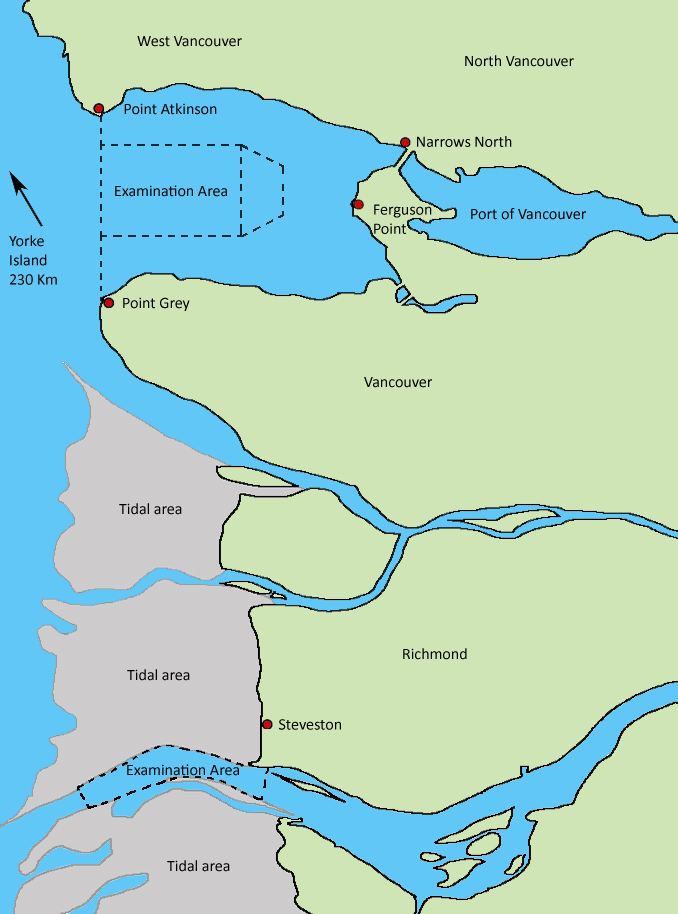 Map of the coast of Vancouver British Columbia showing the locations of World War II coastal defence forts